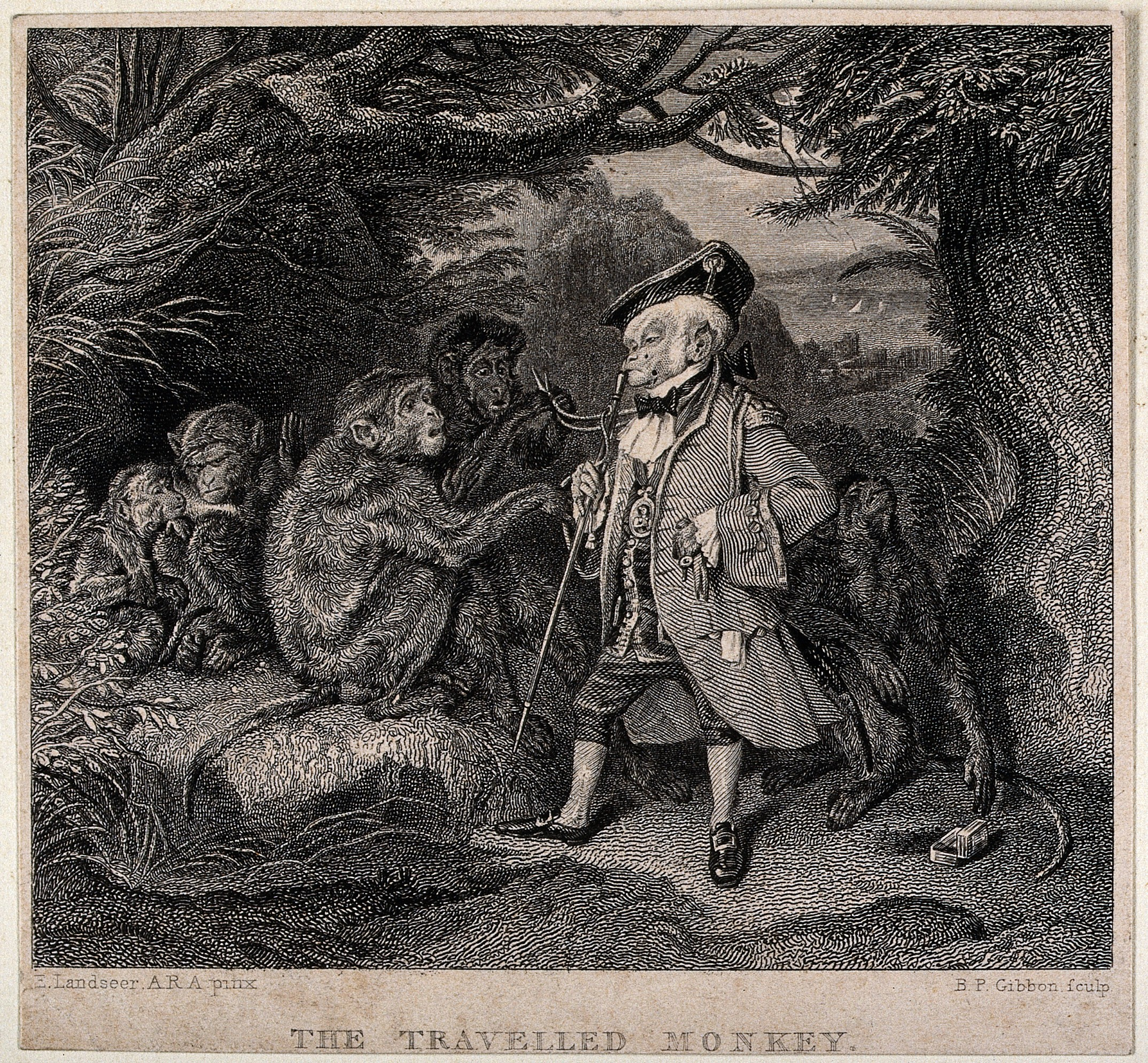 A monkey in elegant costume is addressing a group of wild monkeys under a tree. Engraving by B.P. Gibbon after an oil painting by E. H. Landseer. Iconographic Collections Keywords: Benjamin-Phelps Gibbon; Edwin Henry Landseer